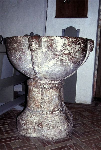 Tågerup Kirke (church)